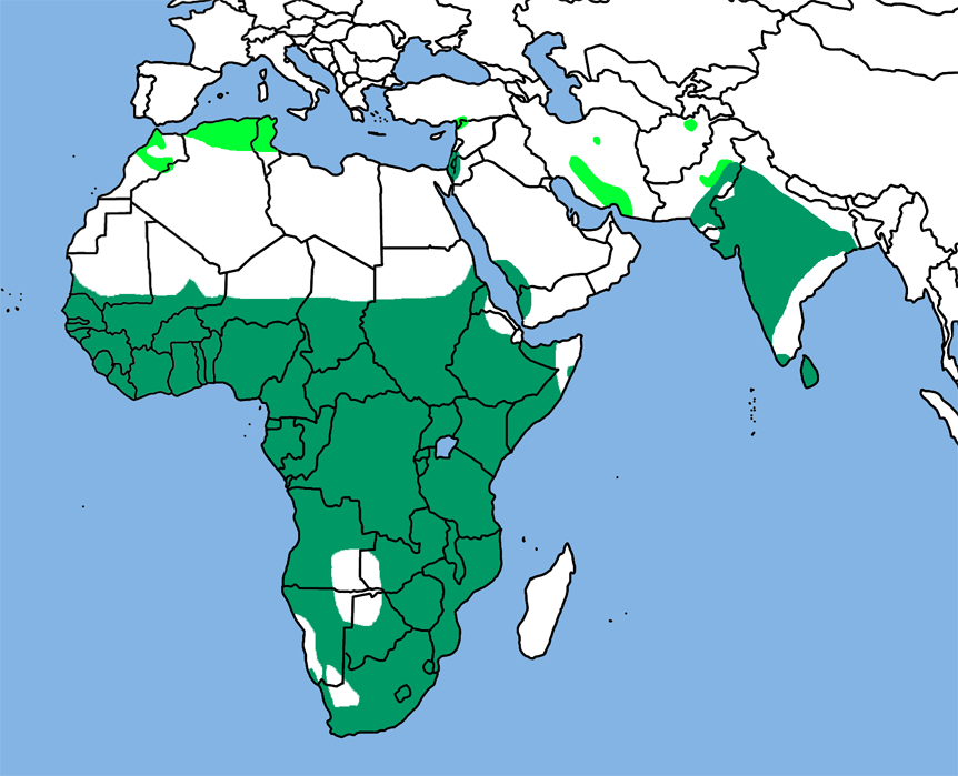 Distribution of Apus affinis. Resident range: dark green; summer range: lighter green. Data source: Phil Chantler & Gerald Driessens: A Guide to the Swifts and Tree Swifts of the World. Pica Press, Mountfield 2000. ISBN 1-873403-83-6